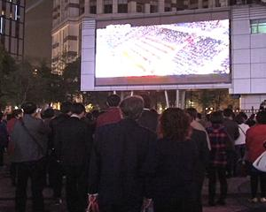 Shanghai people watch Expo opening ceremony on big TV